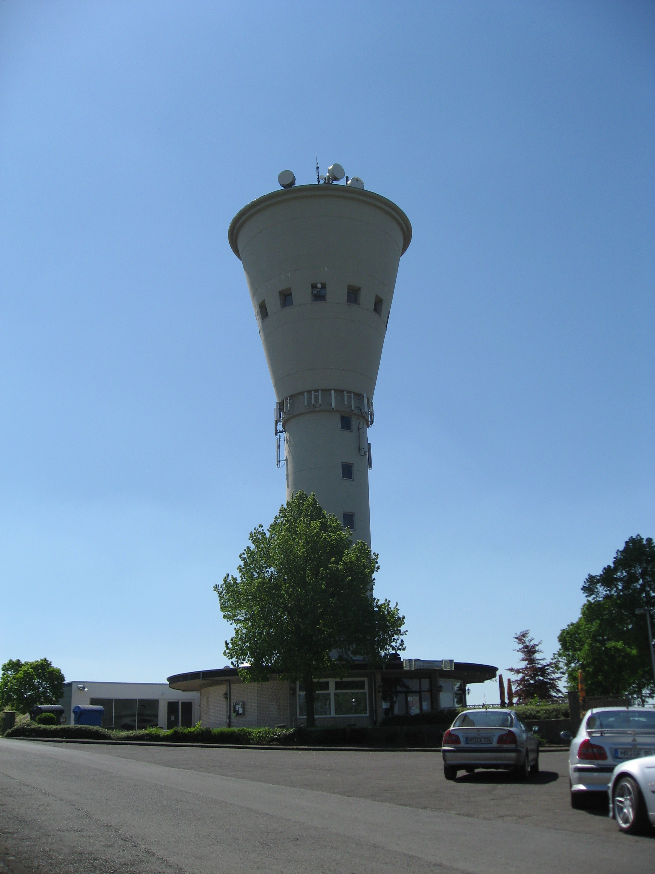 Watertower of Borken, Hesse